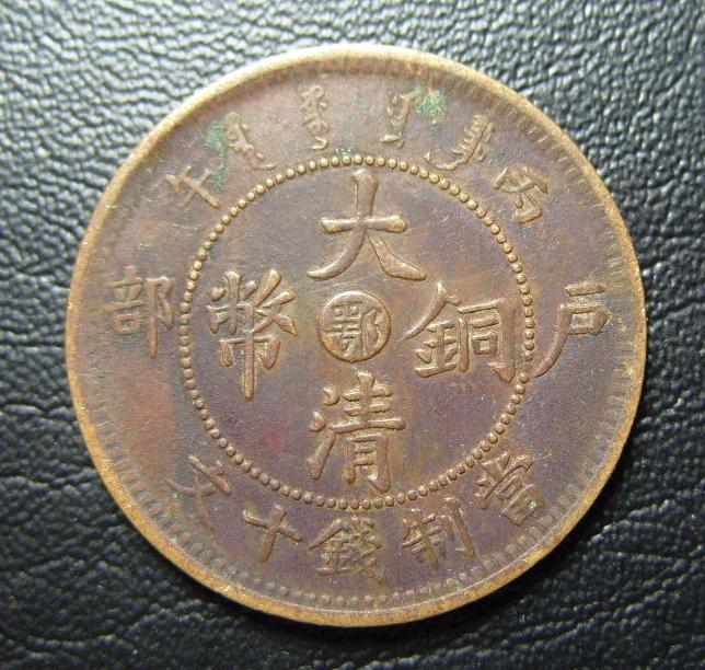 hubei daqing coin